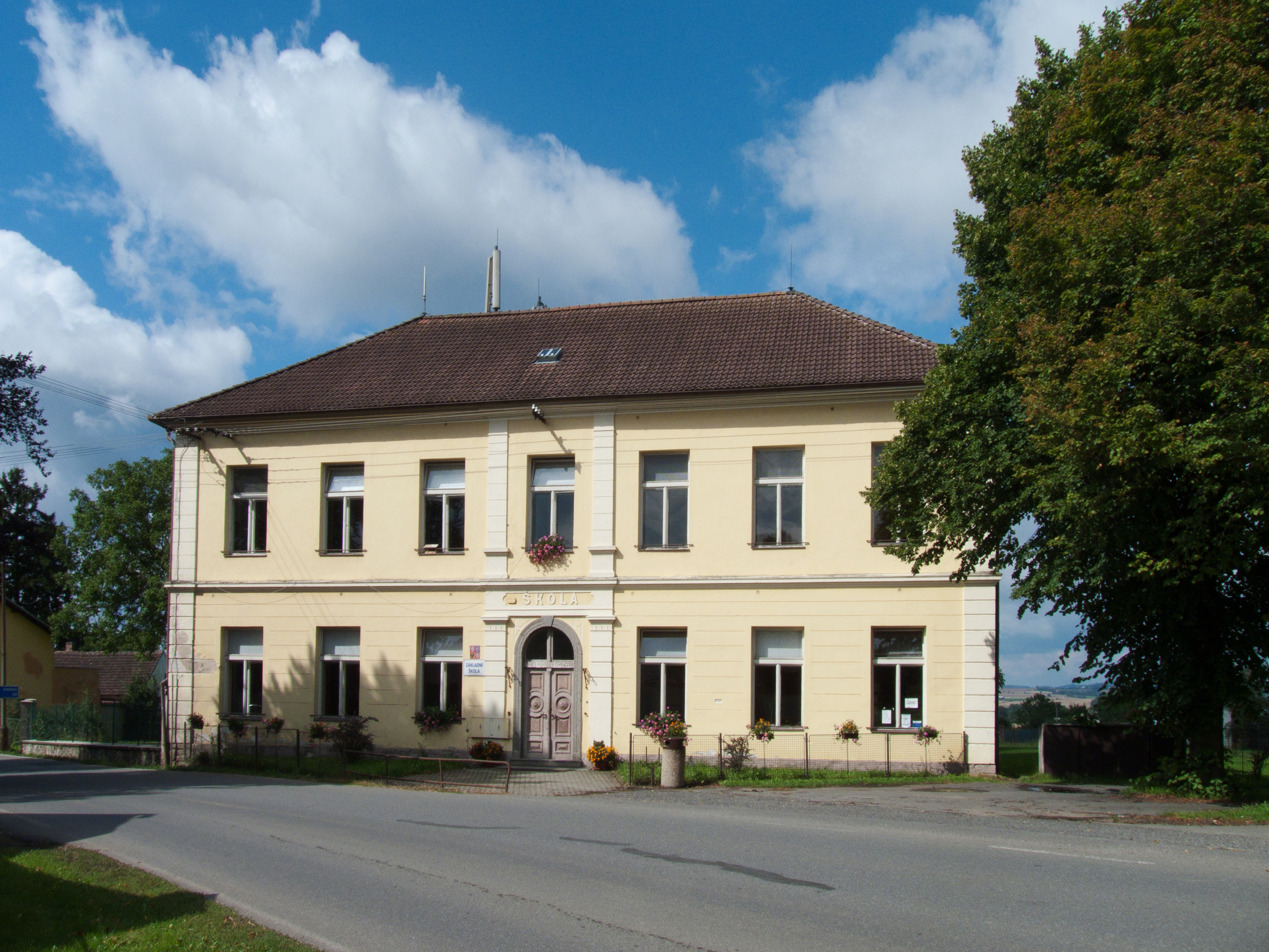 Elementary school in the village of Ratibořské Hory, Tábor District, Czech Republic